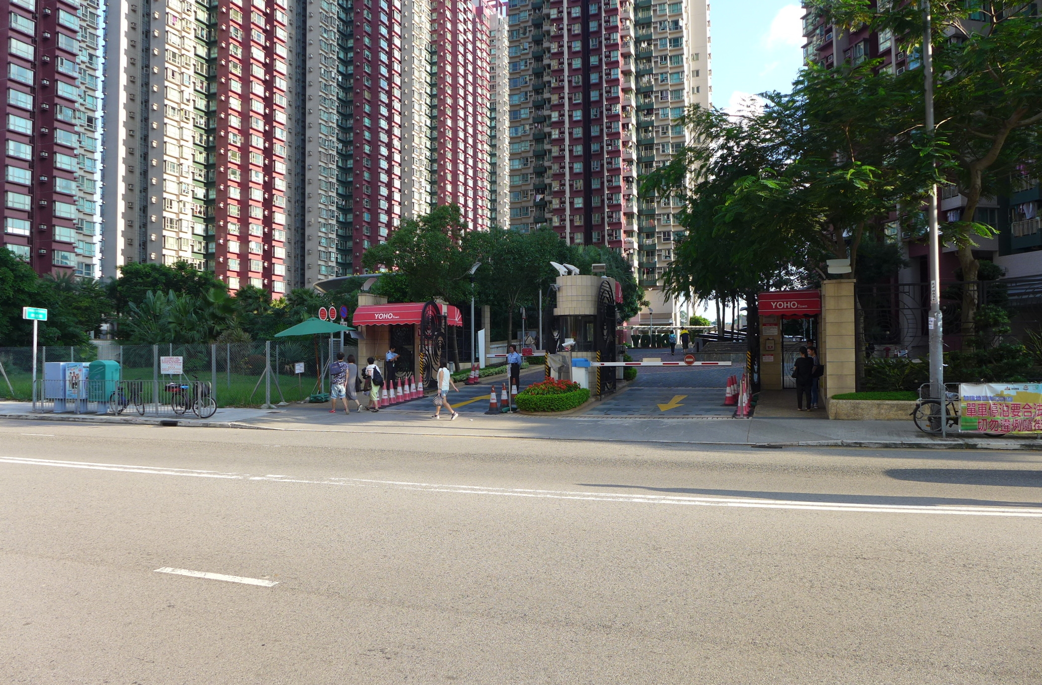 YOHO Town Phase 1 Entrance